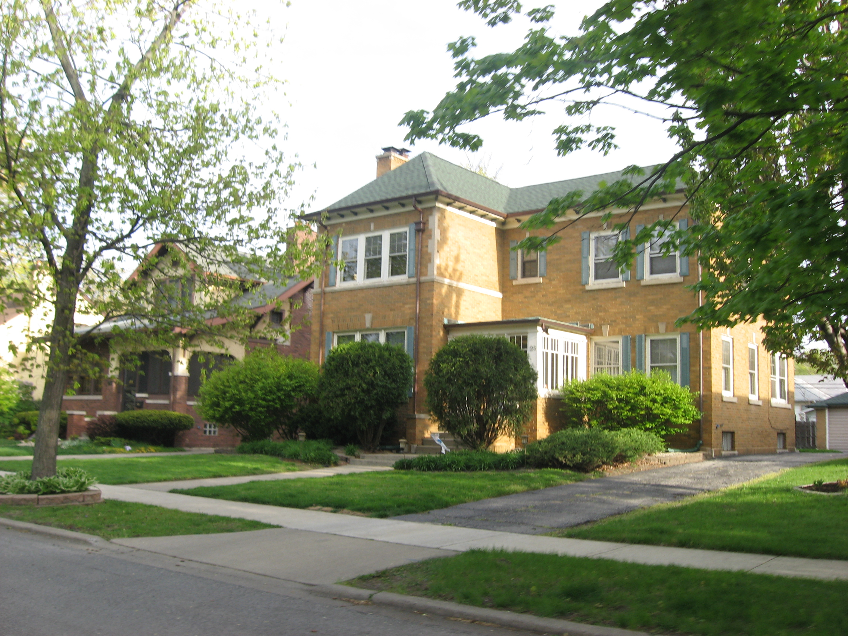 Houses at 21 (left) and 25 (right) Indi-Illi Parkway in Hammond, Indiana, United States. Built in 1920 and 1930 respectively, they are part of the Indi-Illi Park Historic District, a historic district that is listed on the National Register of Historic Places.